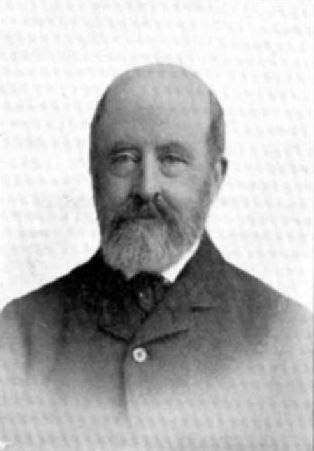 Portrait of William Shepherd Allen.